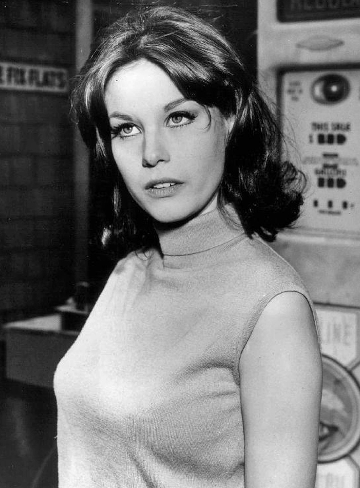 Publicity photo of Lana Wood in tv series Peyton Place.